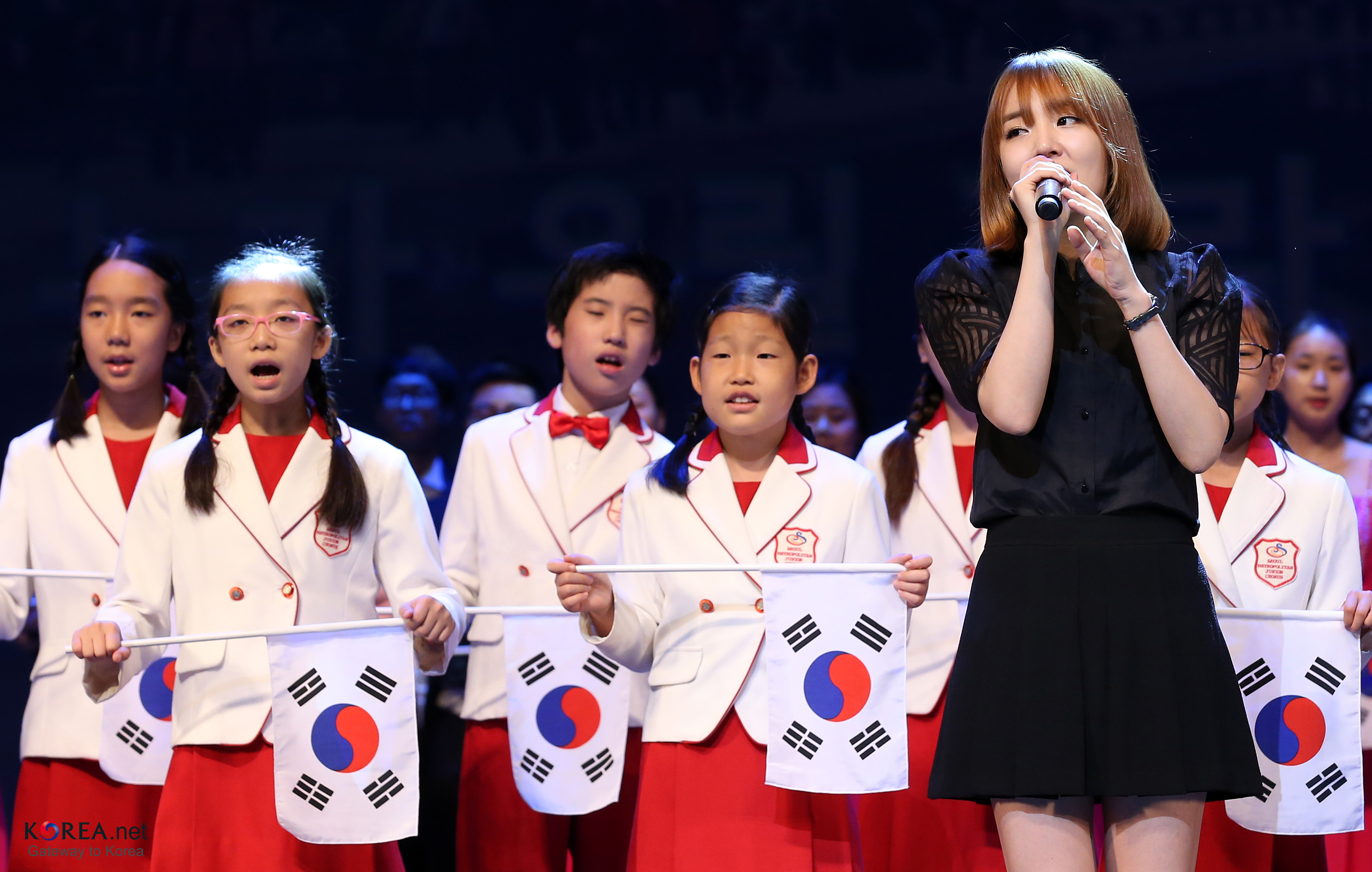 National Liberation Day Commemoration Ceremony Sejong Center, Seoul Ministry of Culture, Sports and Tourism Korean Culture and Information Service ( JEON HAN 제68주년 광복절 기념식 세종문화회관, 서울 문화체육관광부 해외문화홍보원 코리아넷 전한